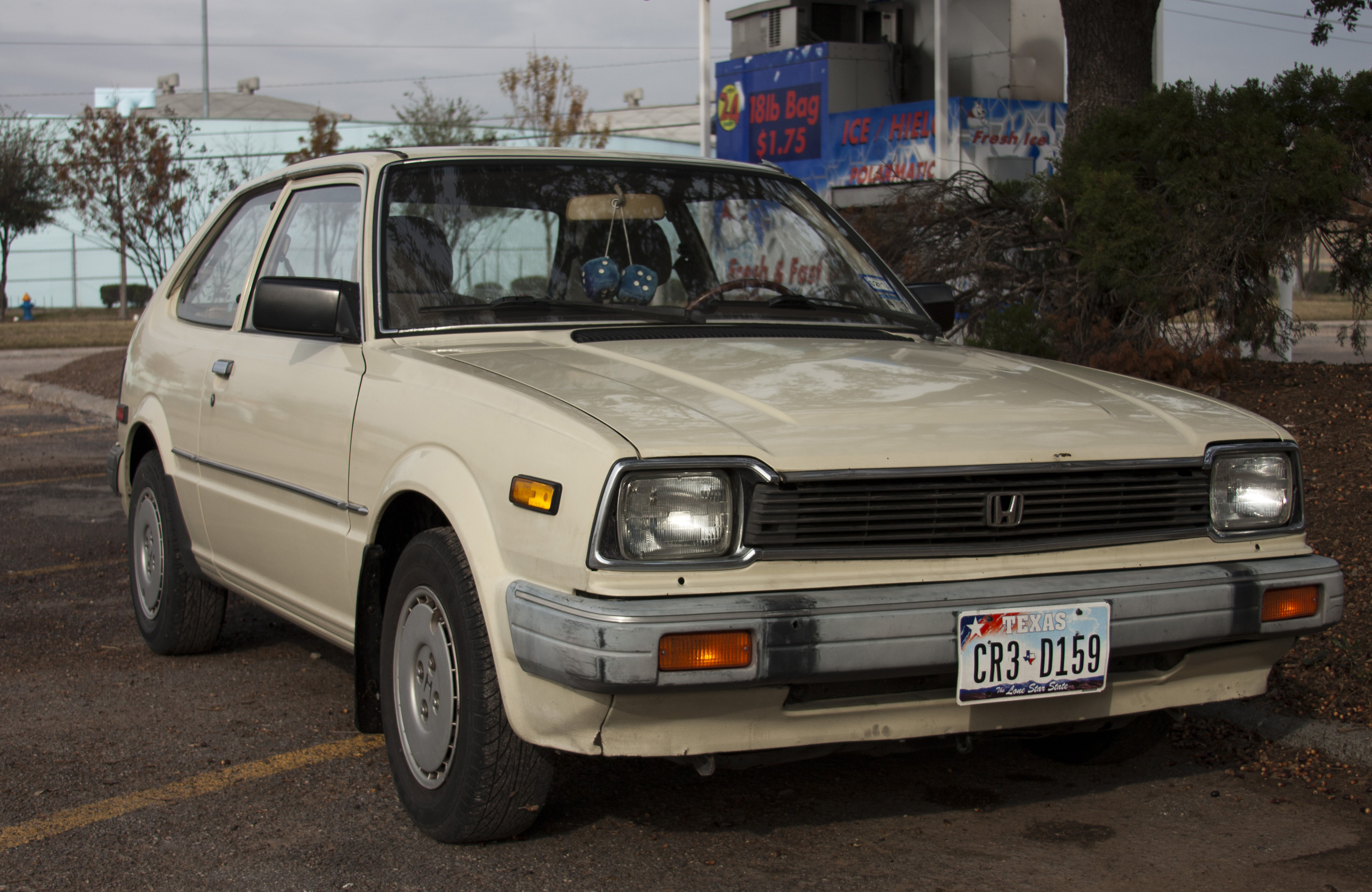 1982–1983 Honda Civic, shown with hubcaps from the 1984–1987 model year Civic. Photographed in the United States.